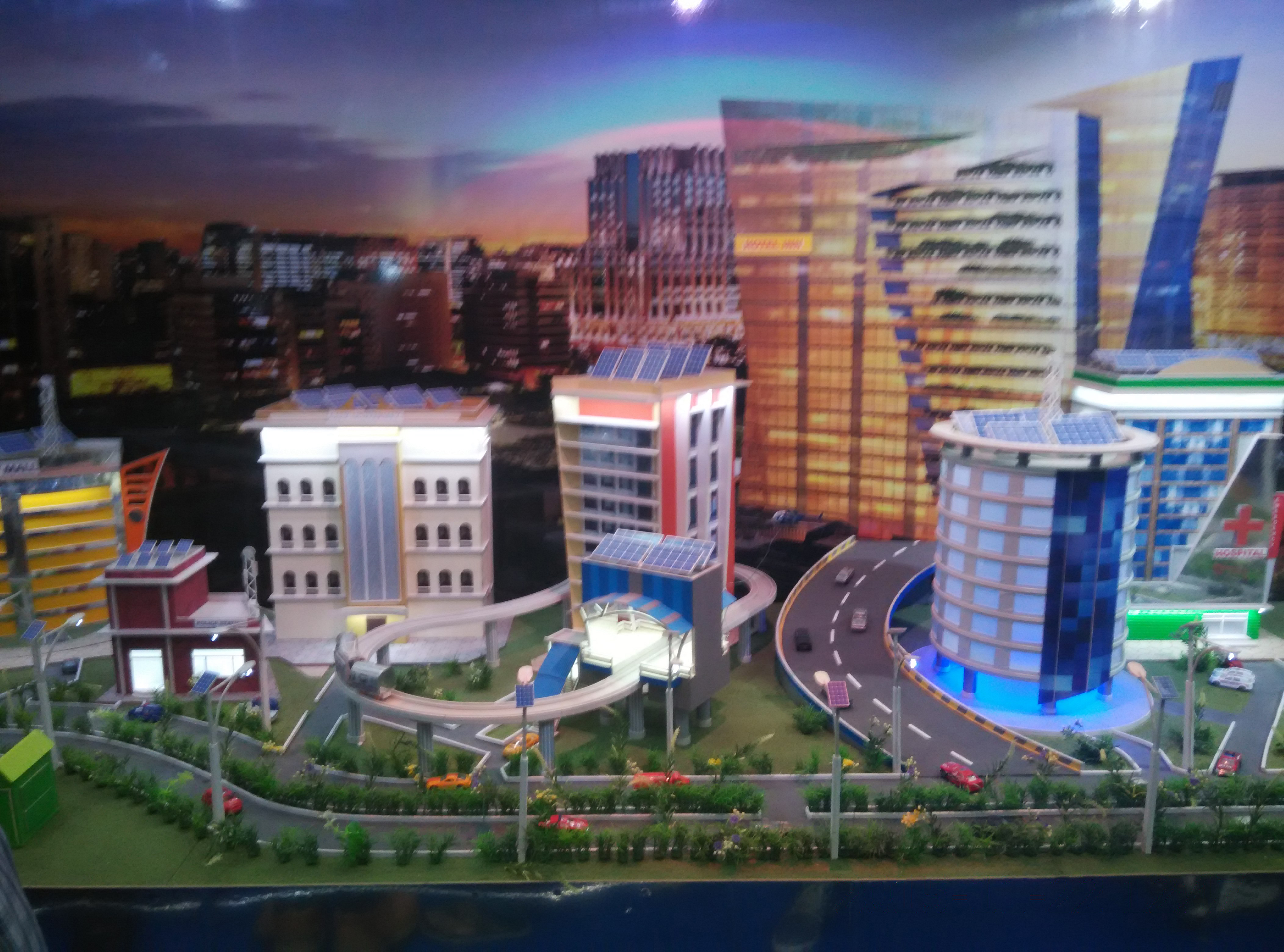 Depiction of Smart City in Trade Fair, Pragati Maidan